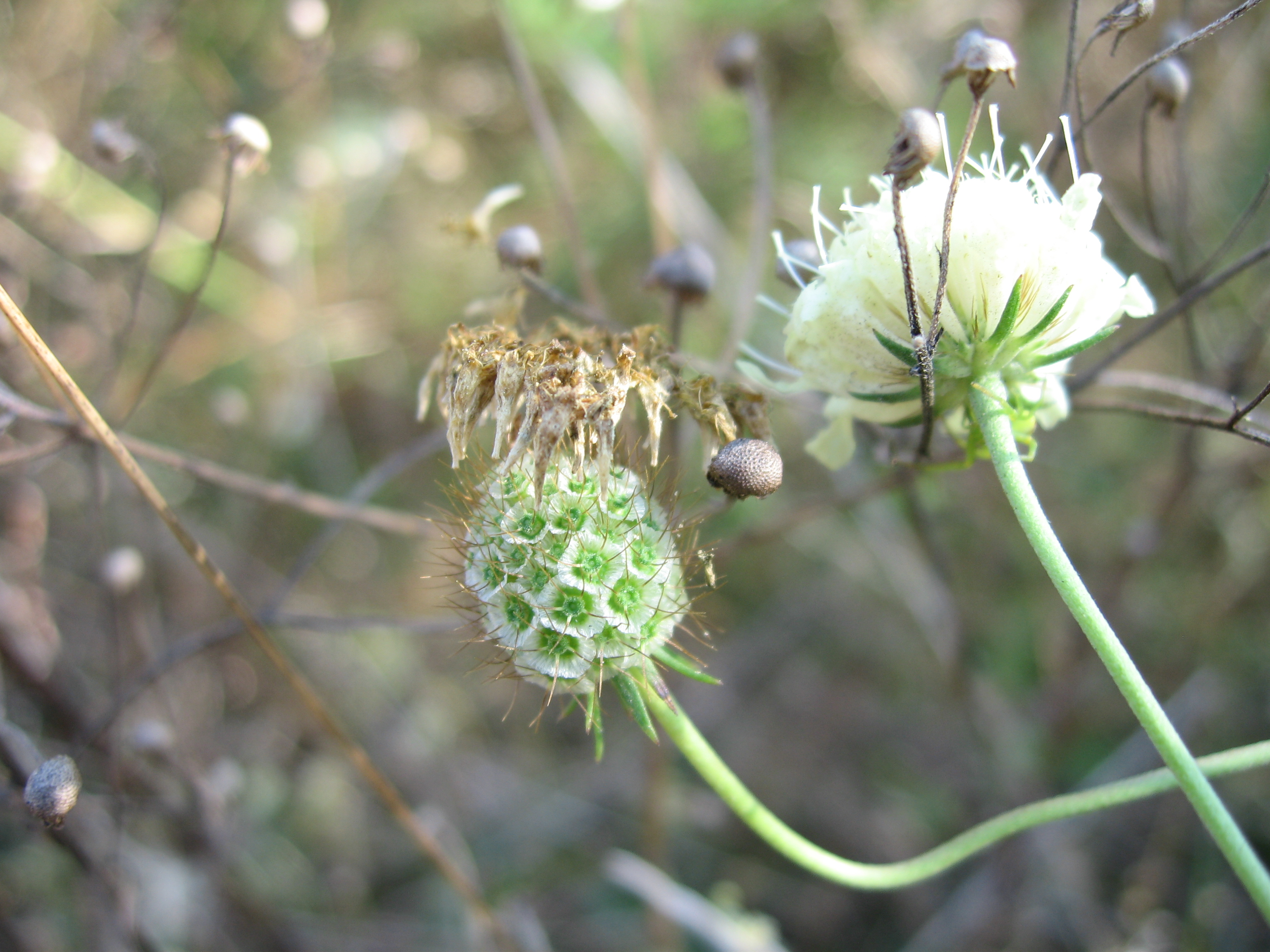 Scabiosa ochroleuca unripe fruit